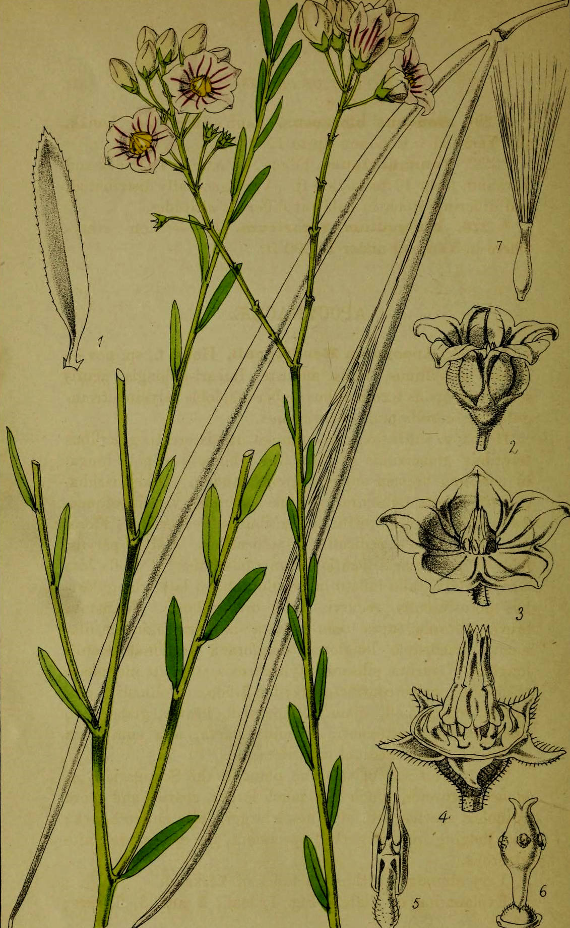 WHT^tcli dfil.eb lith . J N.7itc.i imp L Reeve & C° London.